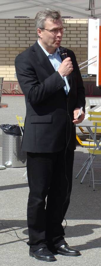 Finnish politician (Center Party) Pekka Myllymäki in Seinäjoki